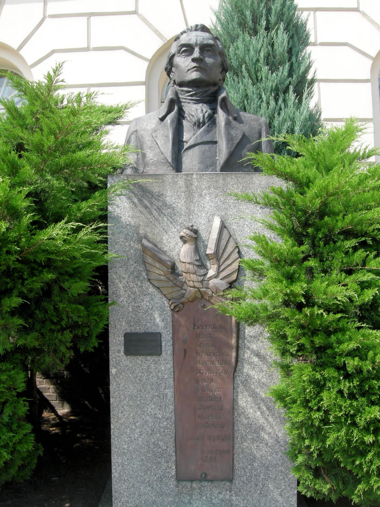 Sculpture of Józef Wybicki, Śrem, Greater Poland Voivodeship , Poland